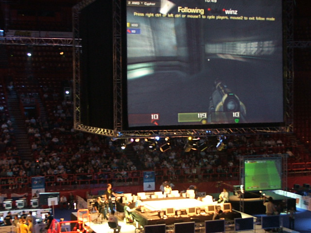 ESWC Final 2006, Palais Omnisports of Paris Bercy